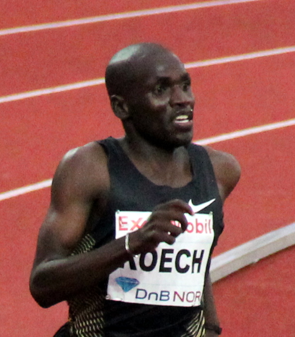 Paul Kipsiele Koech at the 2011 Bislett Games